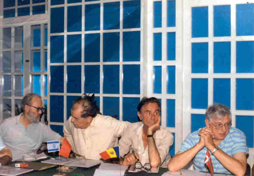 John Roycroft, Gia Nadareischwili, Virgil Nestorescu und Jan Mortensen – chess composers, PCCC-meeting 1990 in Benidorm (Spain)